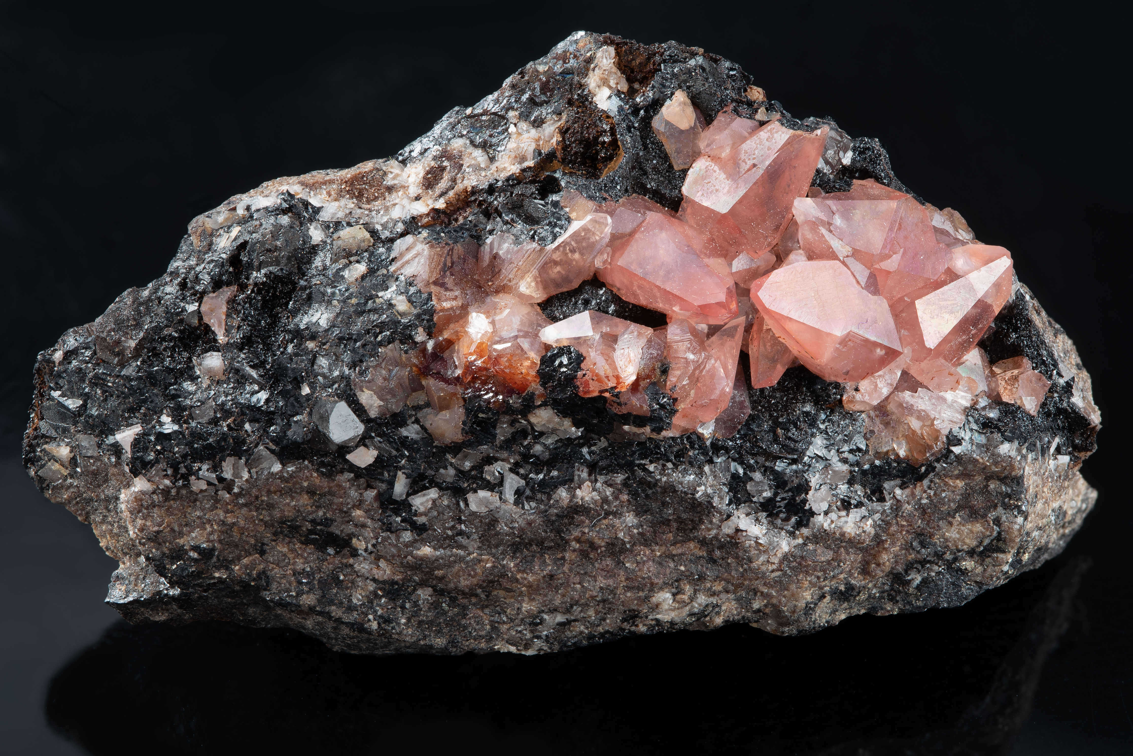 Rhodochrosite on Matrix from Peru. Size 4×2.5 cm.